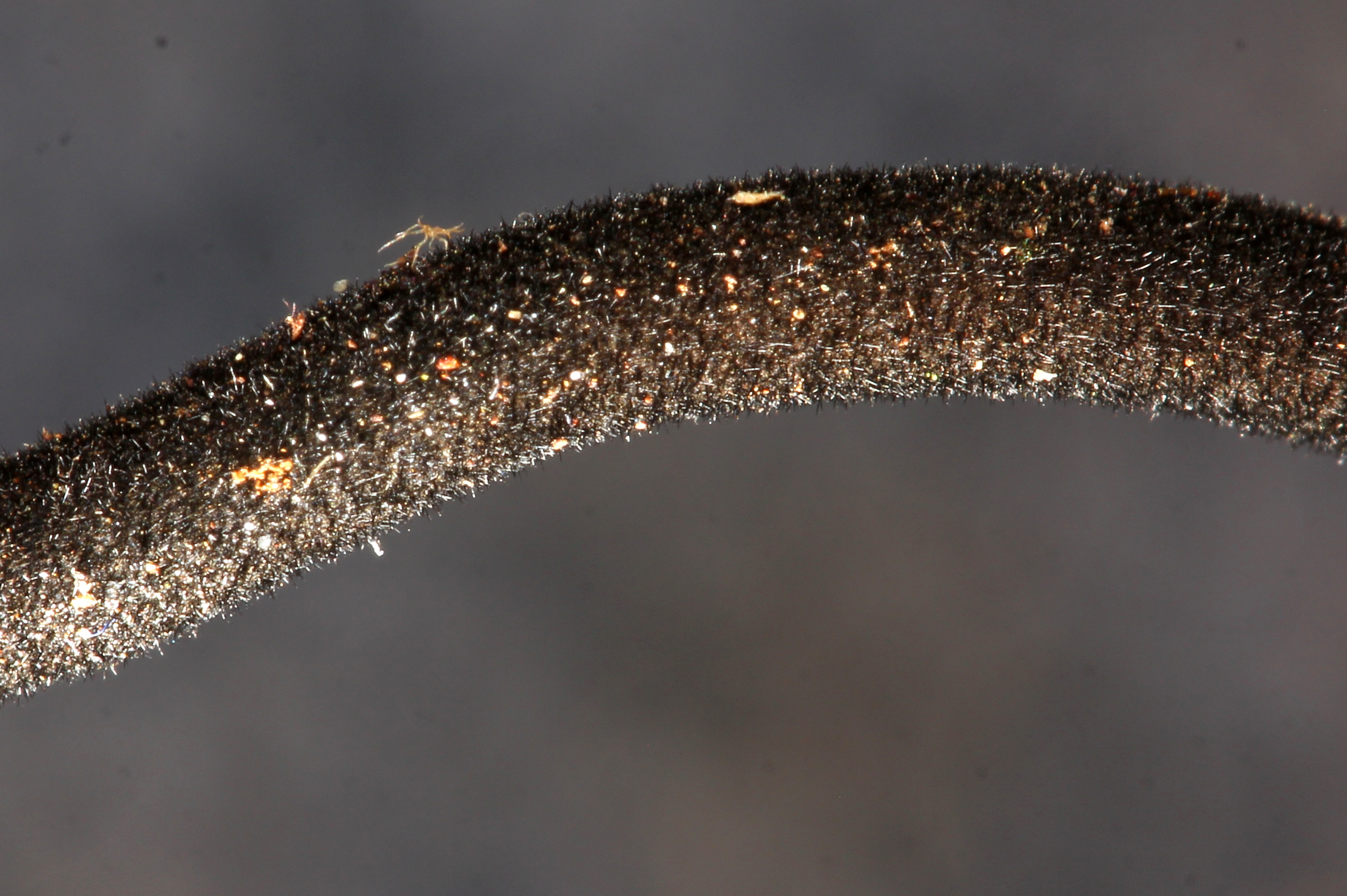 Trichoglossum hirsutum stipe by Alan Rockefeller Collected at Muir Woods, California